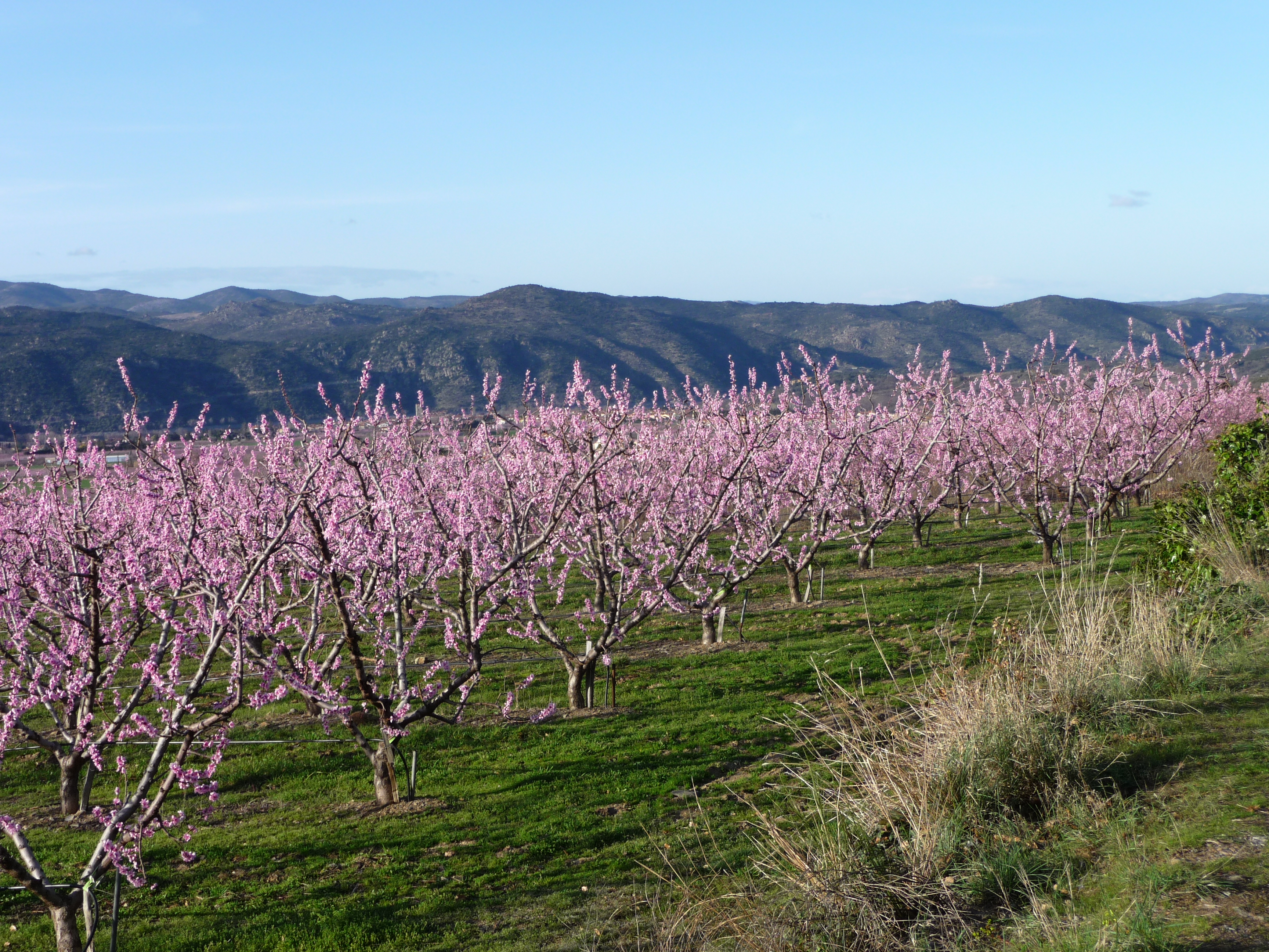 Peach orchard (Prunus persica) - Pyrénées-Orientales, France.